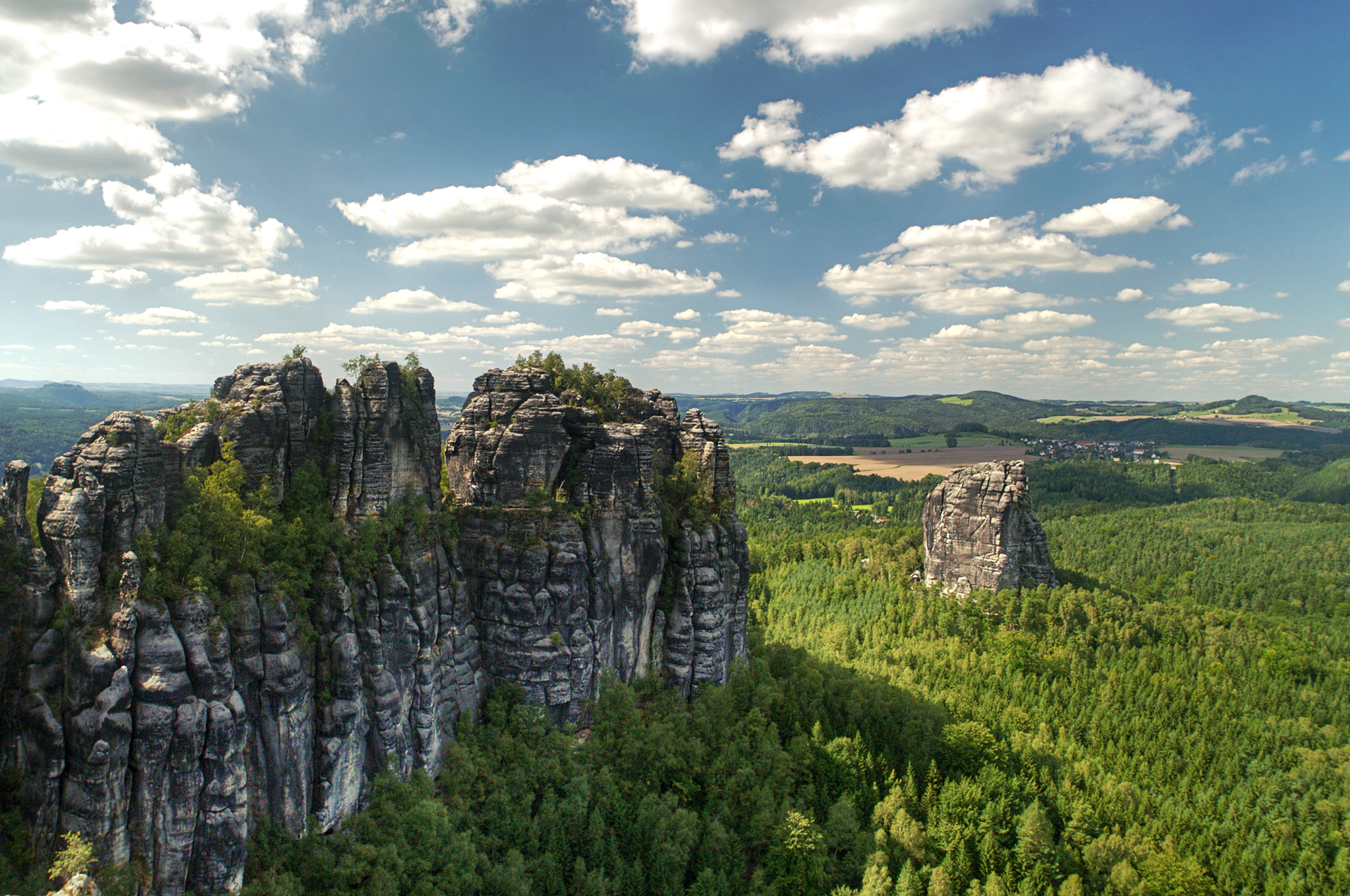 The Schrammsteine, a chain of sandstone rocks in the Elbe Sandstone Mountains and the Falkenstein near Bad Schandau, Germany